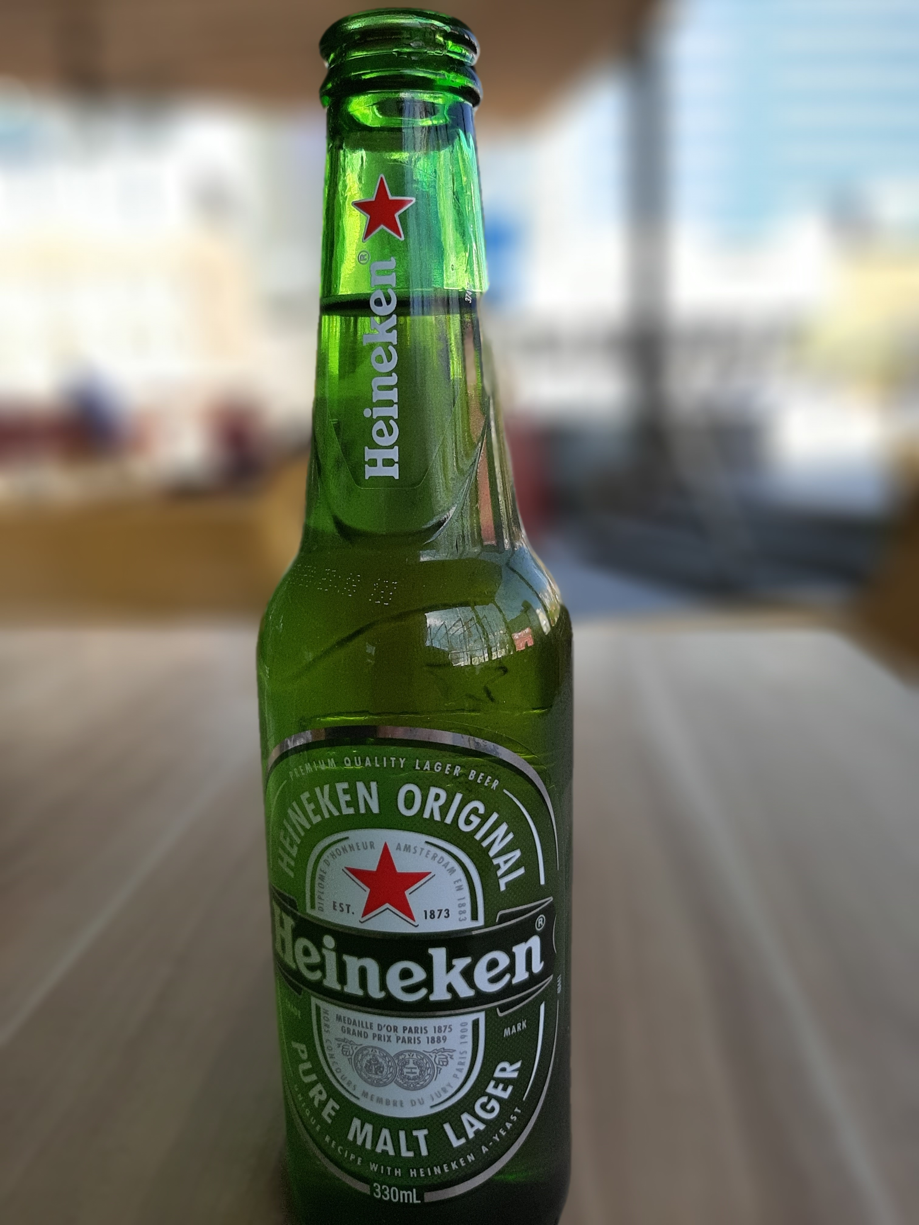 Heineken 330mL bottle